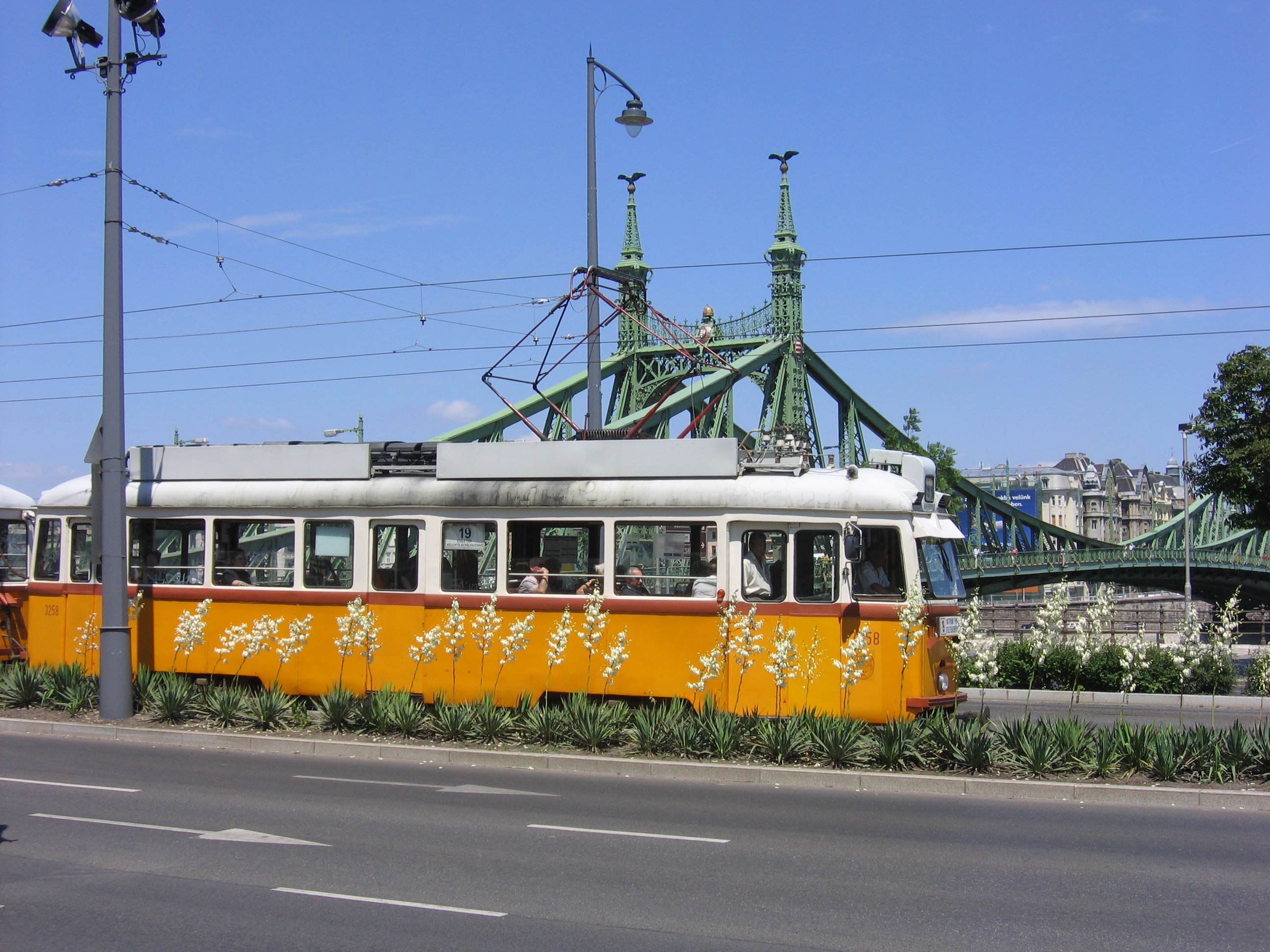 Scenes of Budapest (see filename)